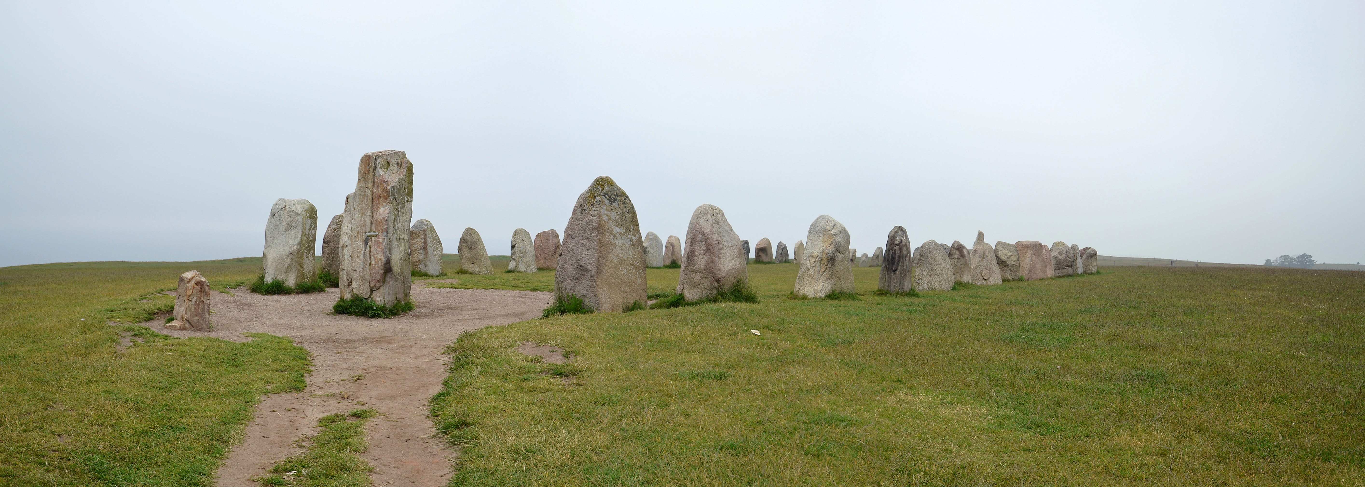 Ales stenar, Sweden